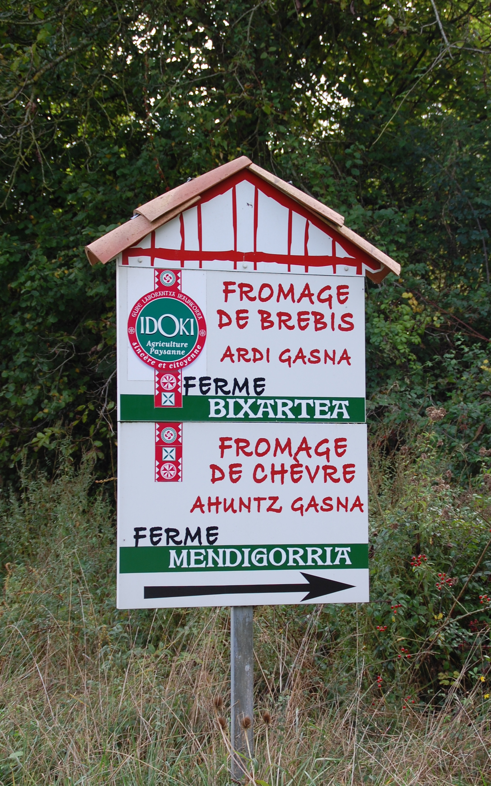 Idoki, vente directe à la ferme, Pays Basque.